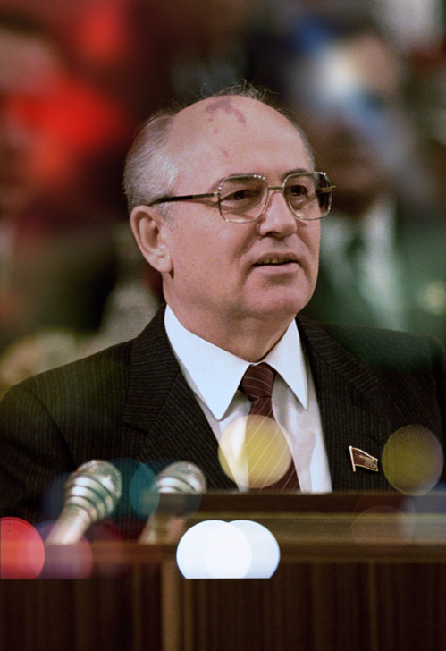 Выступает Генеральный секретарь ЦК КПСС Михаил Сергеевич Горбачев. XX съезд ВЛКСМ. Кремлевский Дворец съездов.